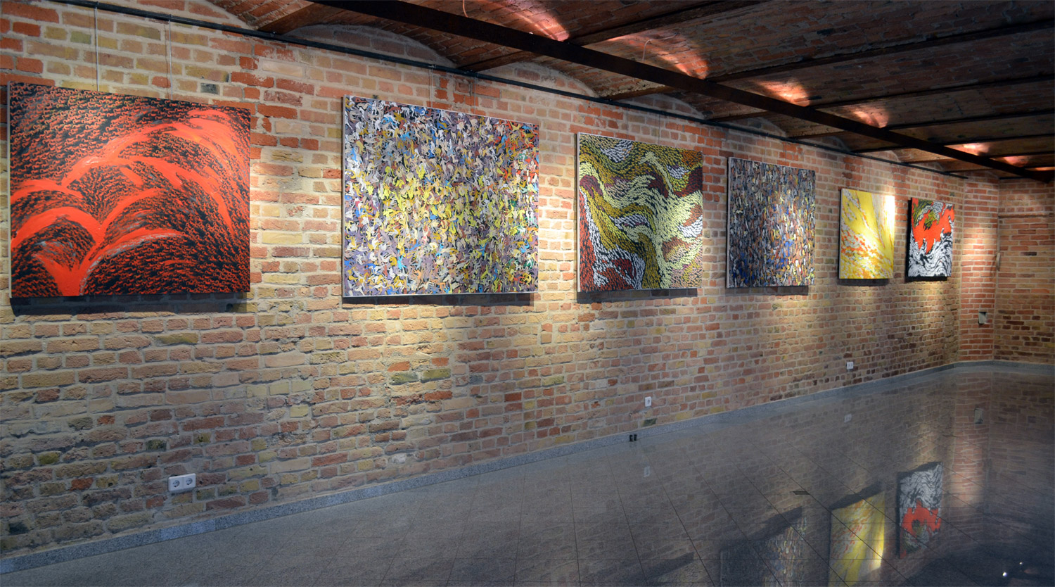 Art Gallery ZURAG Berlin